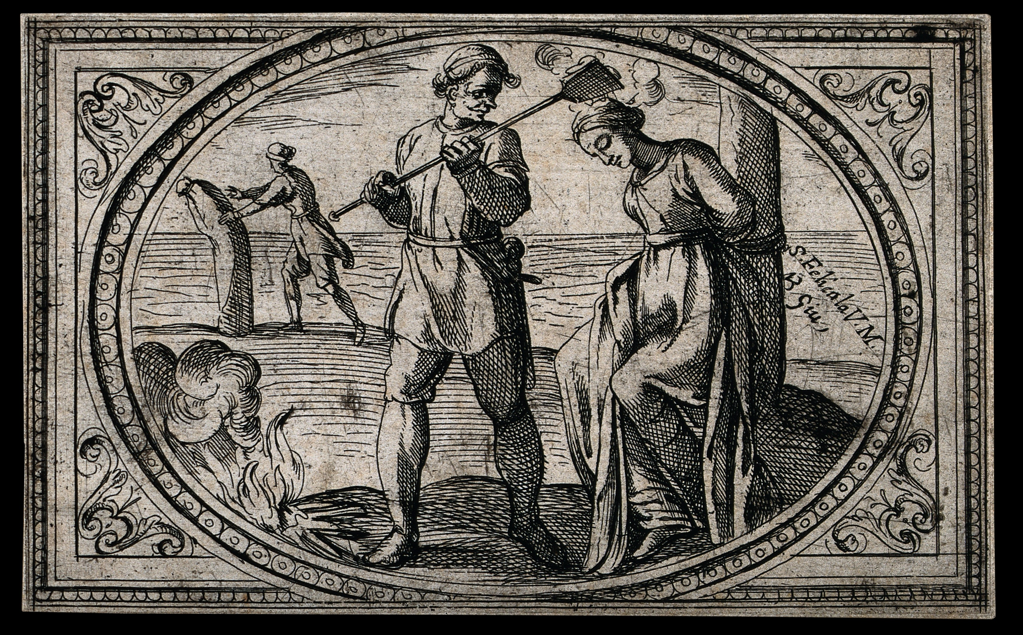 Martyrdom of Saint Felicula. Etching. Iconographic Collections